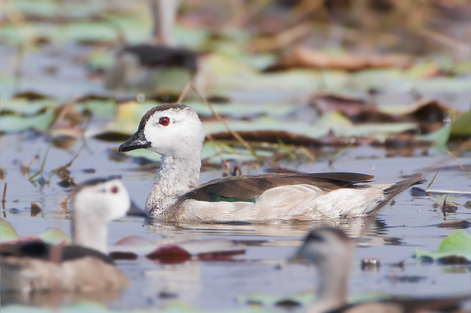 Cotton Pygmy Goose (Nettapus coromandelianus) male, Bueng Boraphet, Phra Non, Nakhon Sawan, Thailand